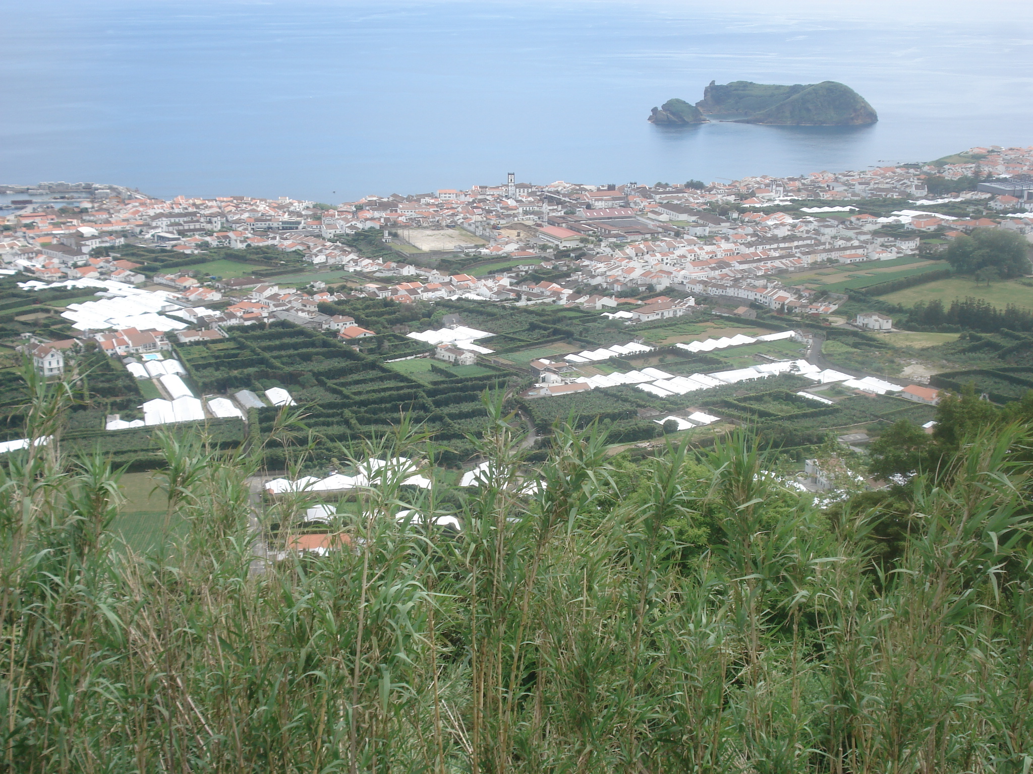 Vila Franca do Campo, as seen from the Chapel of Nossa Senhora do Paz, São Miguel Island, Azores